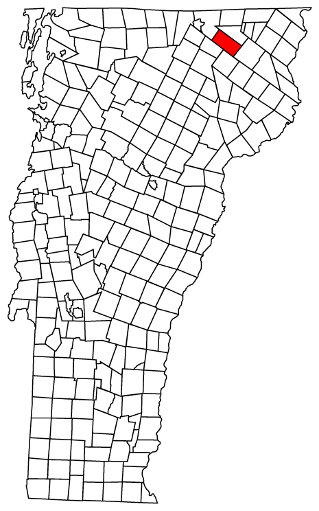 Description: Map of Vermont towns with Charleston highlighted Source: Map created by Jared C. Benedict on 26 March 2004. Copyright: © Jared C. Benedict.